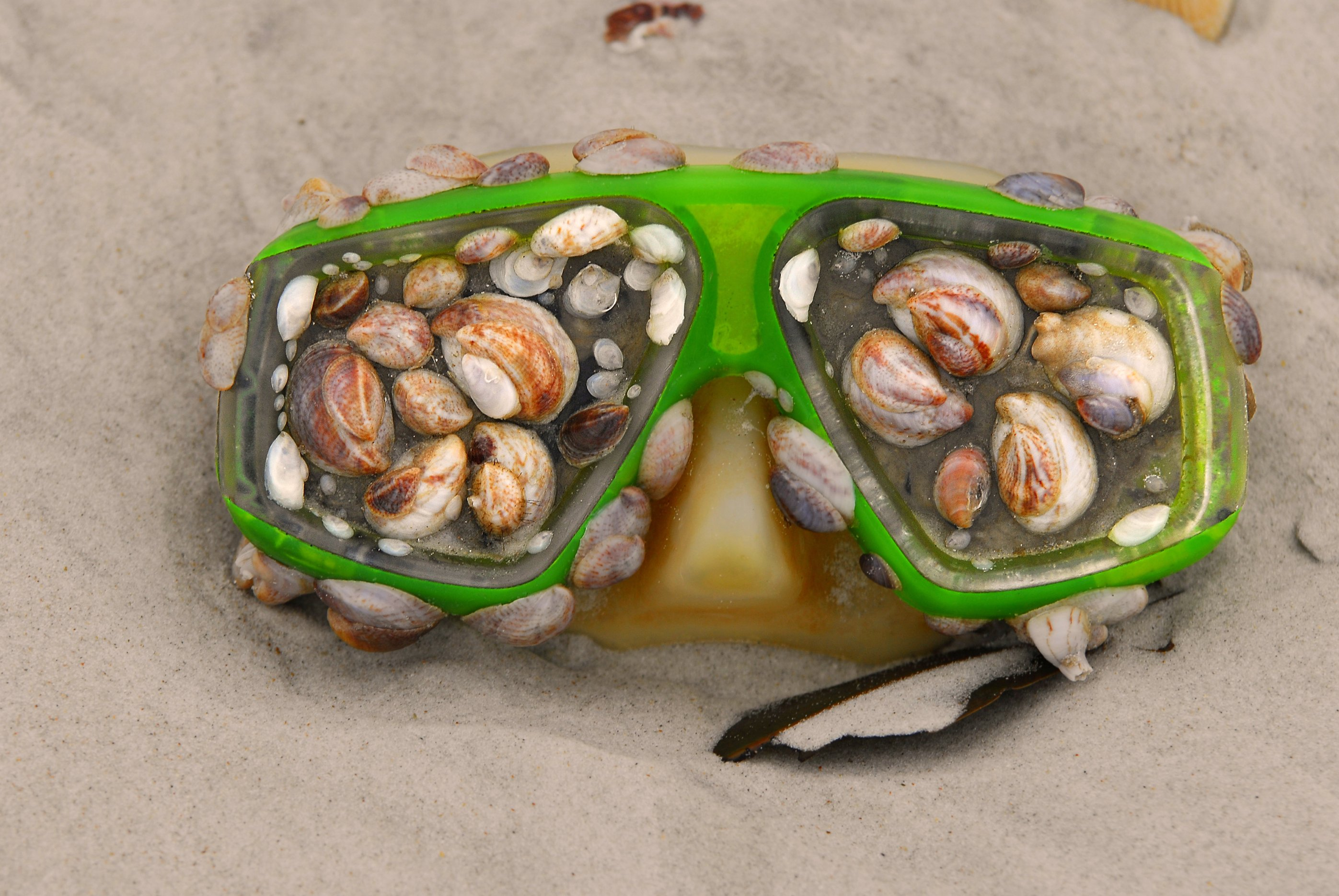 Beach Find So strange to find this on the beach this morning.